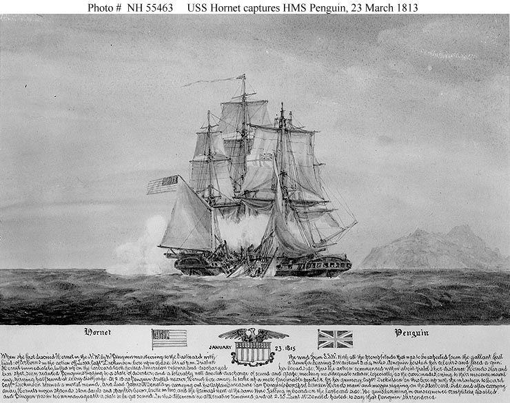 Artists rendering of the action between Marines and Sailors aboard Penguin and Hornet.